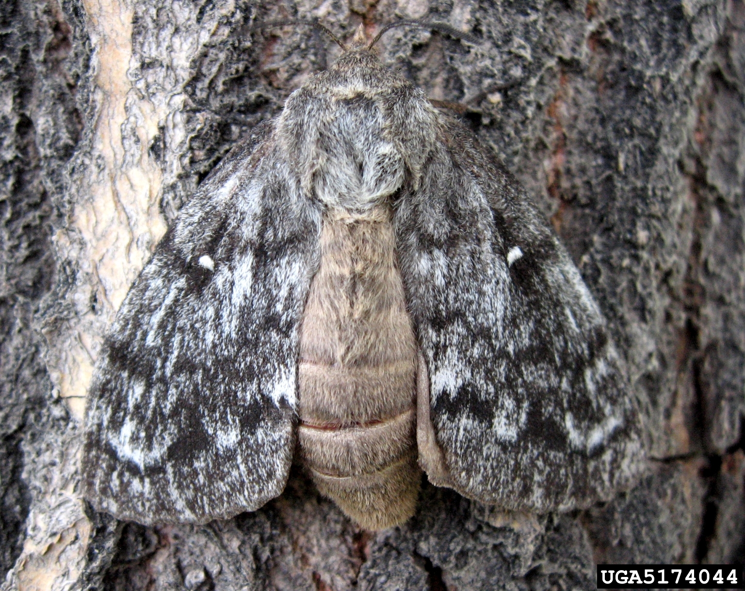 Siberian silk moth Dendrolimus superans sibiricus Tschetverikov (adult)